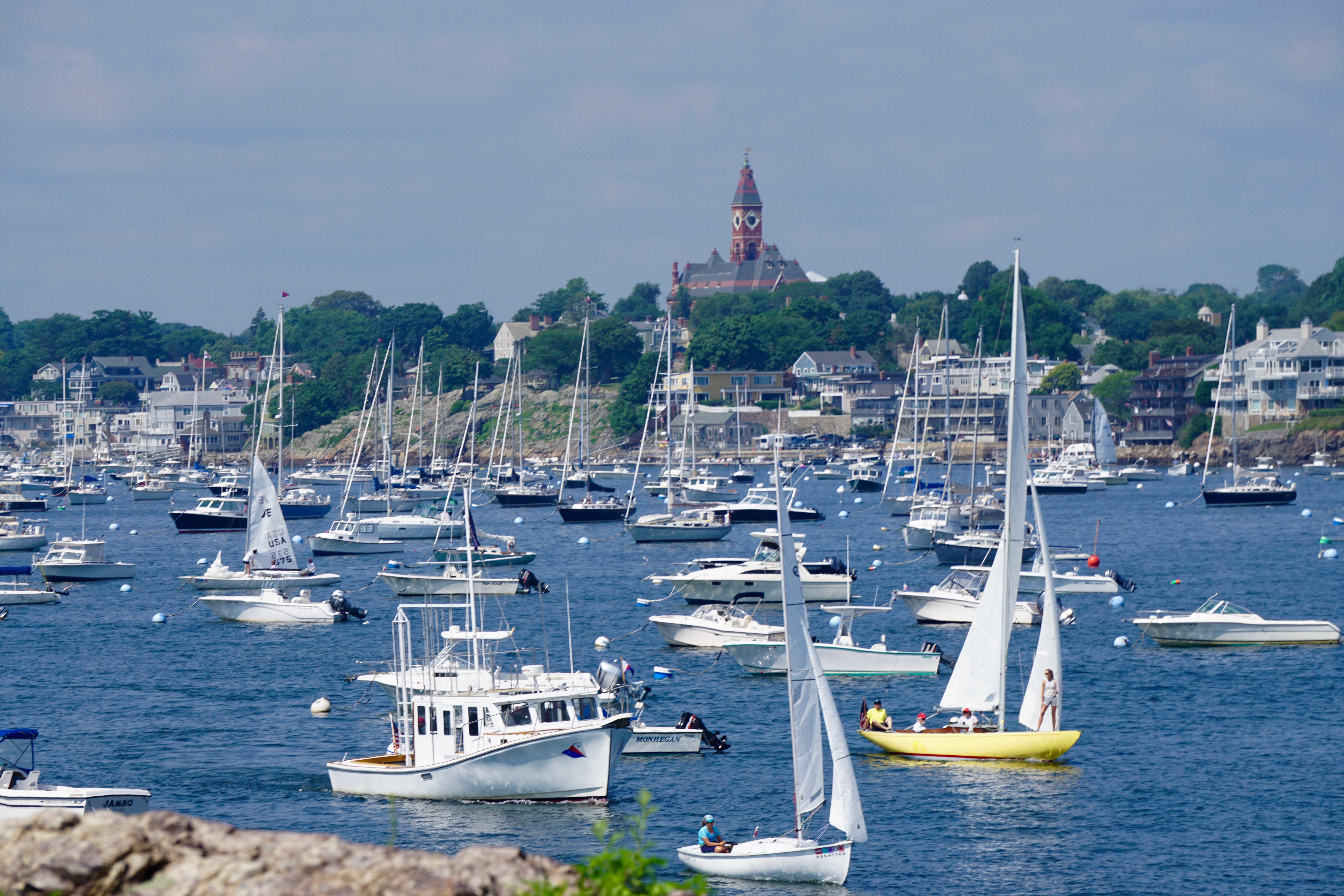 Marblehead, MA